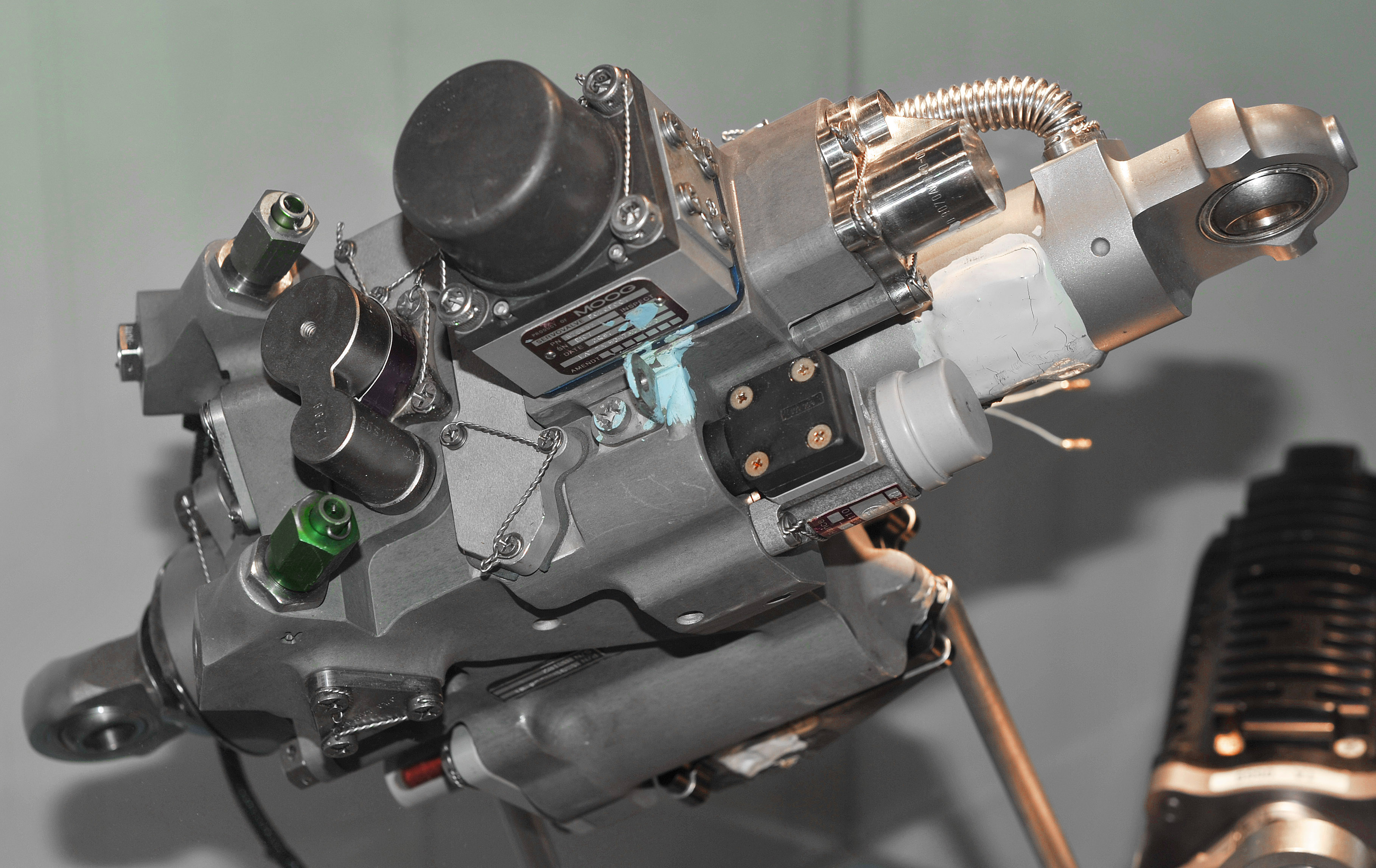 Smart Aileron Actuator (presented on an exhibition at Airport Bremen) Integrated Position Control hydraulic supply: 206 ba (3000 psi) maximum force: 17.5 kN (3934 lbf) maximum deflection rate: 40 deg/s weight: 8.9 kg (19.6 lb)